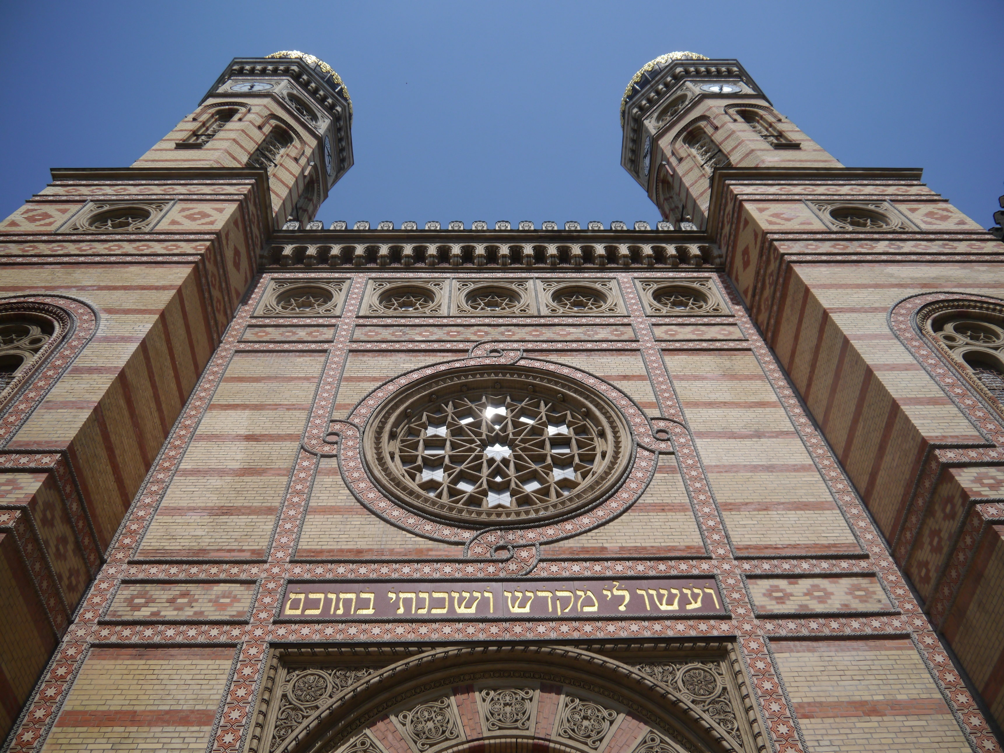 Facade of the Great Synagogue, Budapest, Northern Hungary